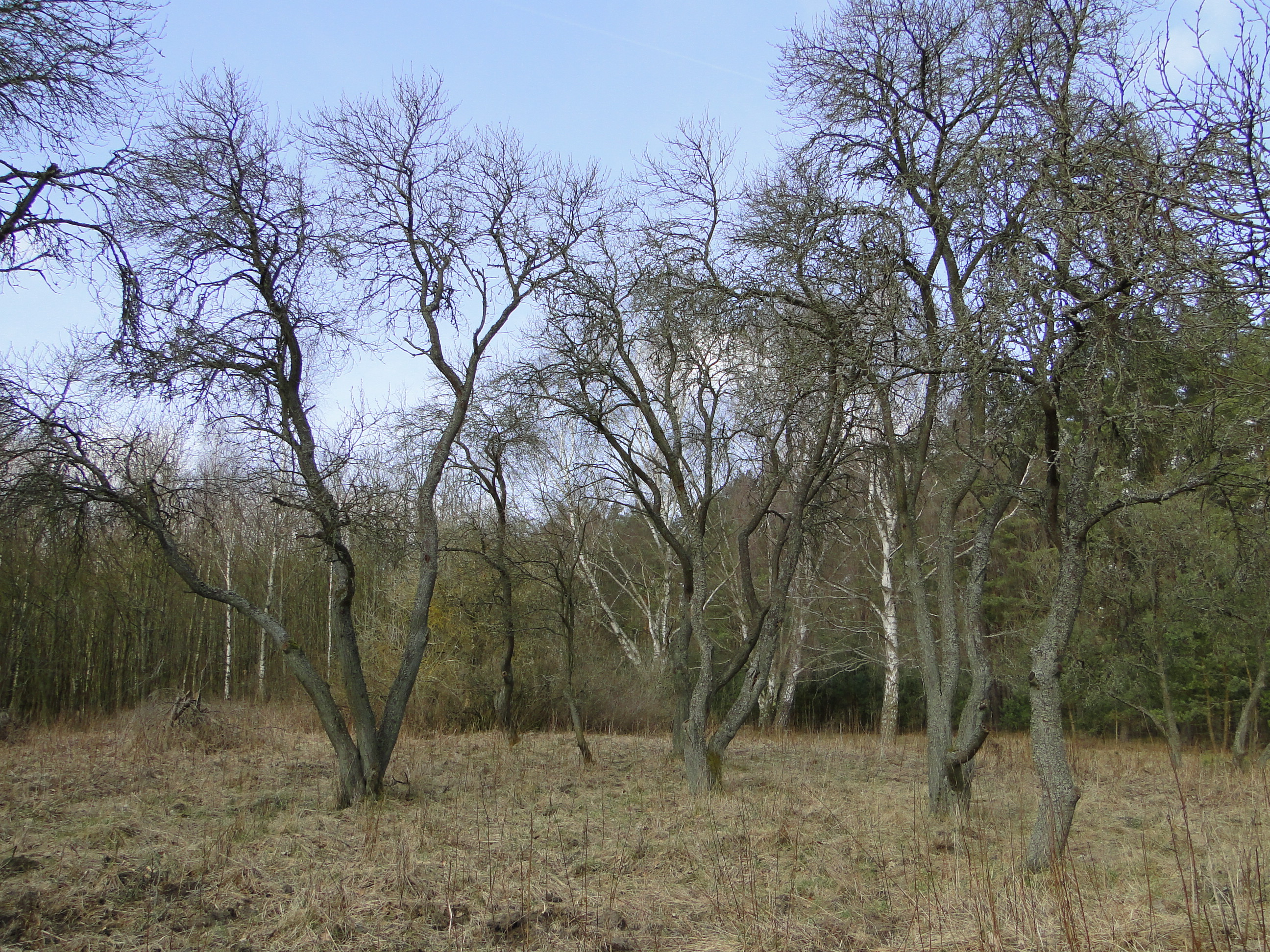 Fruit trees in Grüner Jäger (abandoned village), district Parchim, Mecklenburg-Vorpommern, Germany